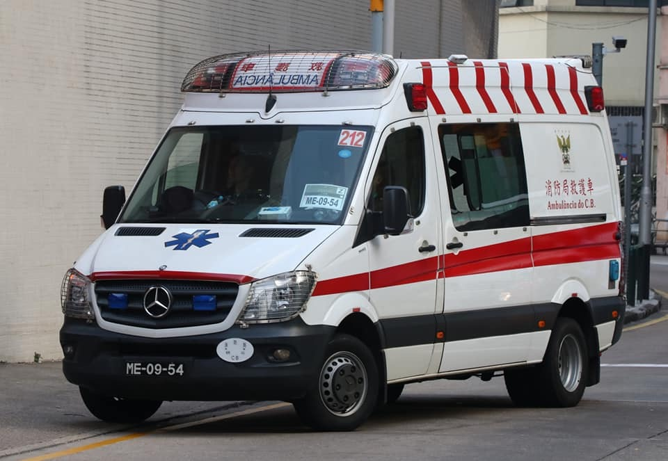 消防局救護車